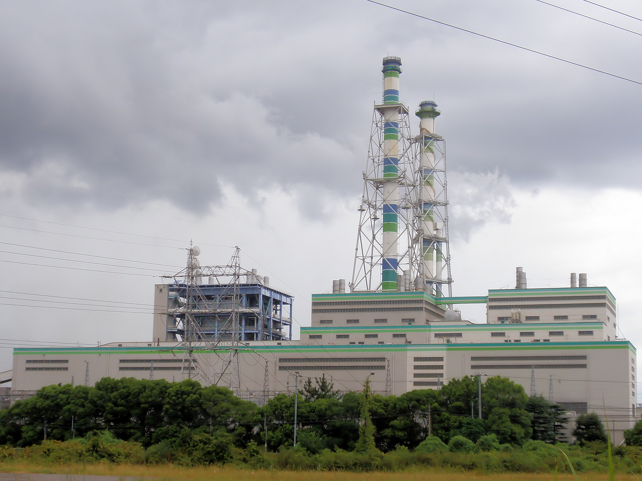 Chugoku electric power Mizushima power station, Kurashiki, Okayama.